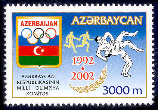 Stamp of Azerbaijan